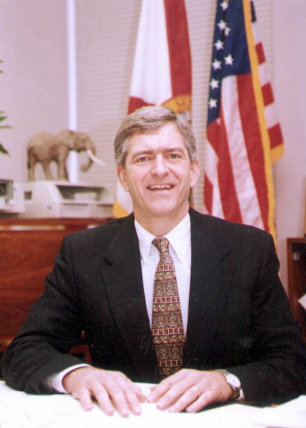 Portrait of Florida Speaker of the House Daniel Webster (1997-1998)